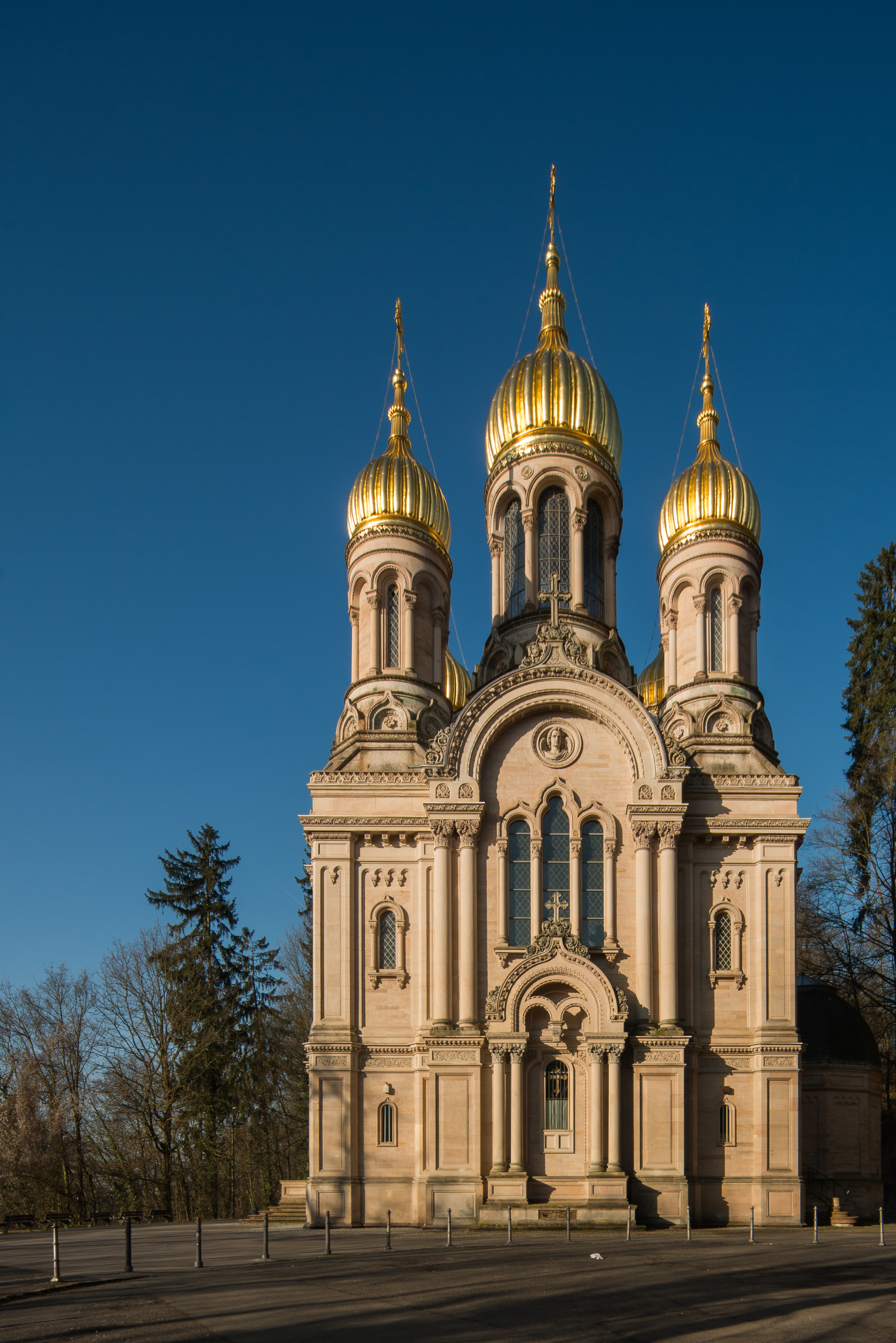 Russian Orthodox Church of Saint Elizabeth in Wiesbaden